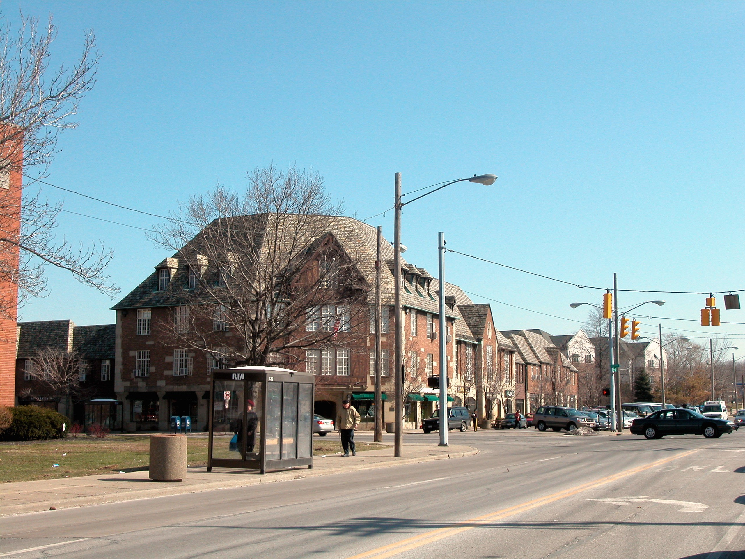 The historic Heights Rockefeller Building sits at the intersection of Mayfield and Lee Roads in Cleveland Heights, Ohio.